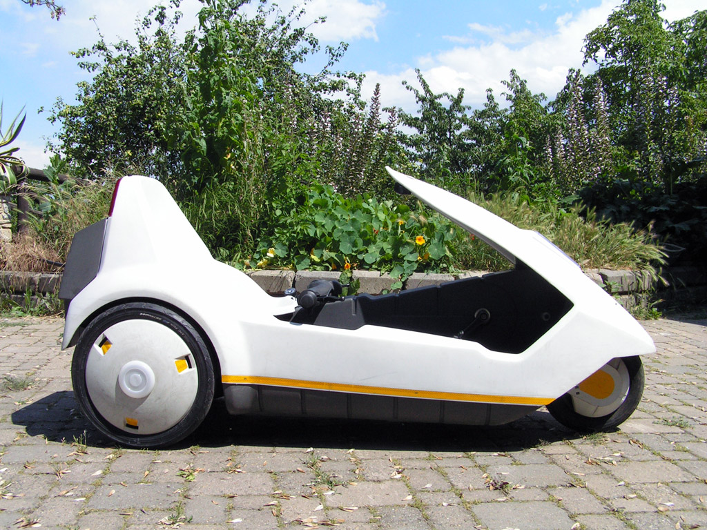 The Sinclair C5 - side view after months of restoration